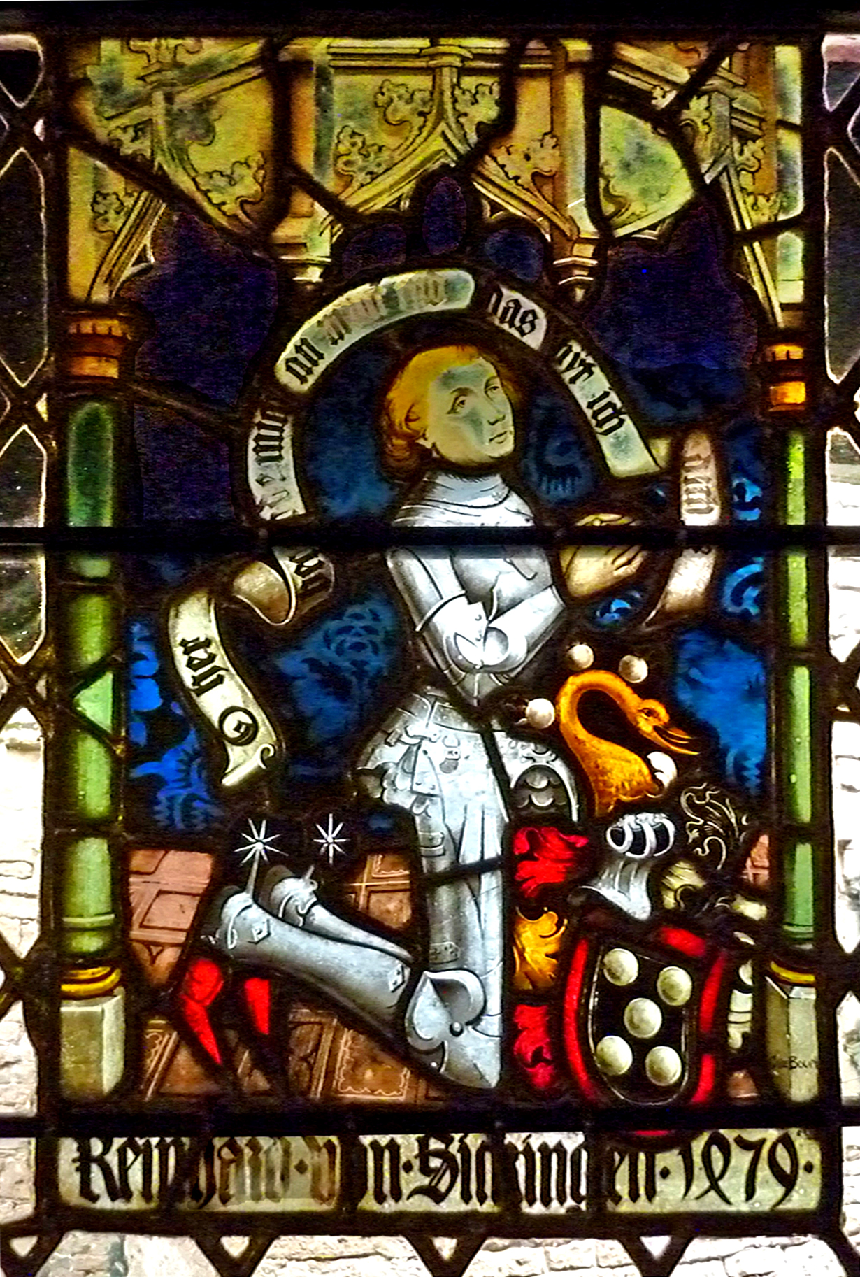 Stained glass window of Reinhard von Sickingen in the castle Haut-Koenigsbourg. The original window pane was created in 1499, and this copy was made by Eduard Stritt (1870-1937) in the early 20th century.